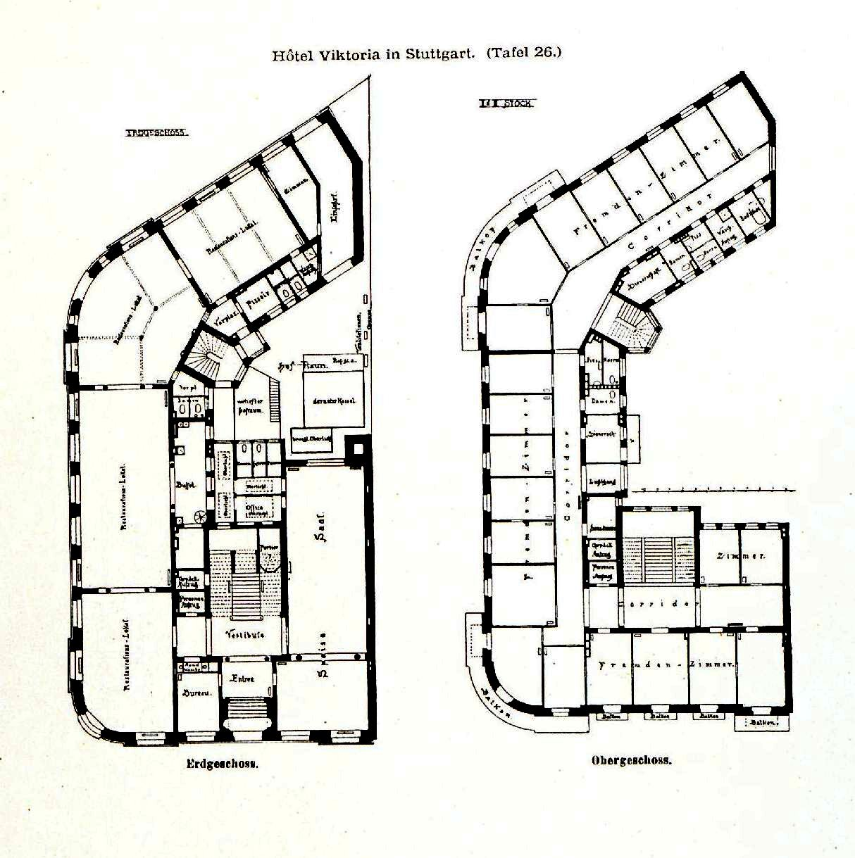 Hotel_Viktoria_in_Stuttgart,_Architekten_Bihl_&_Woltz,_Tafel_26,_Kick_Jahrgang_II.jpg